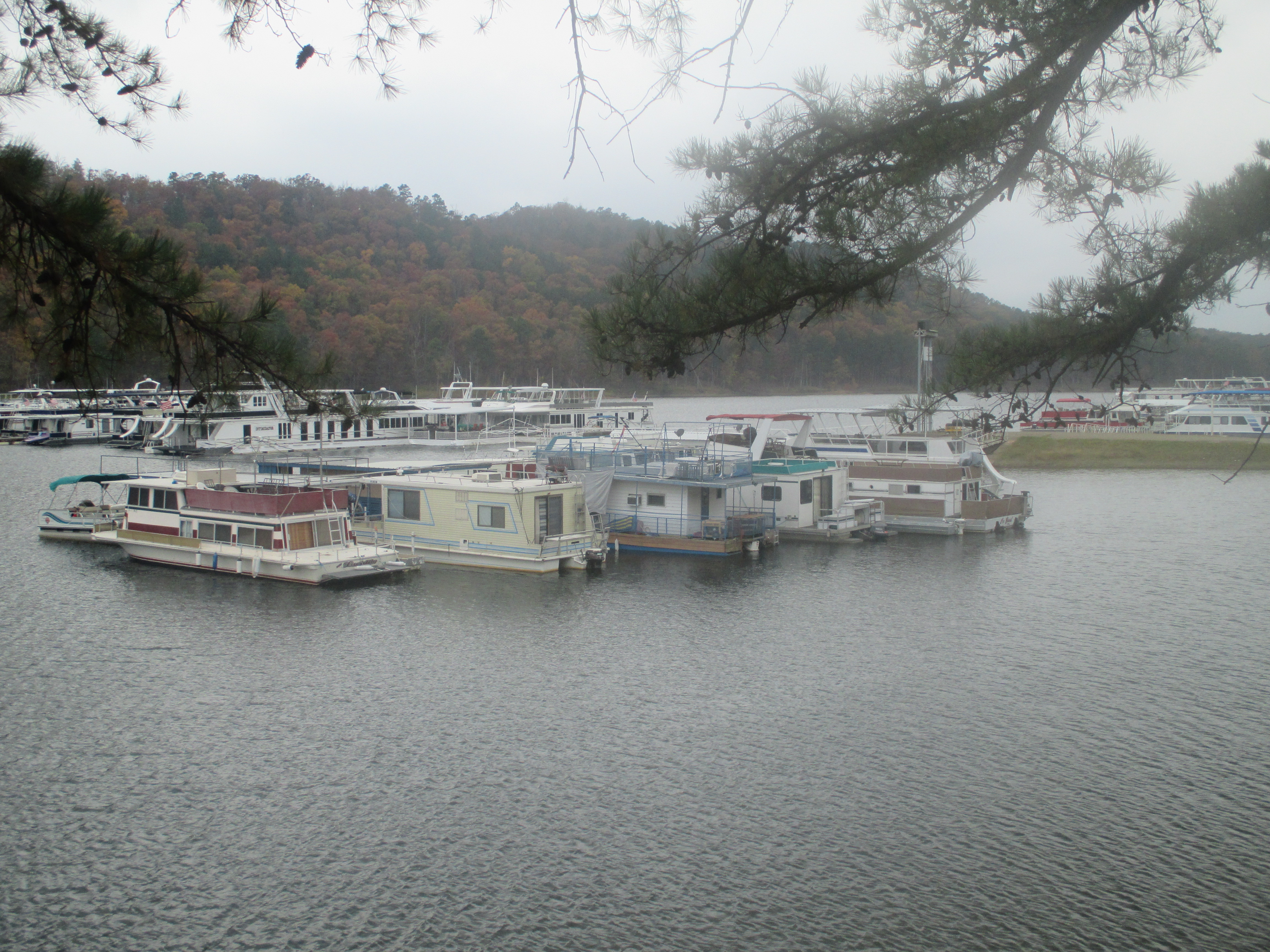 I took photo of houseboats on Broken Bow Lake, using Canon camera.